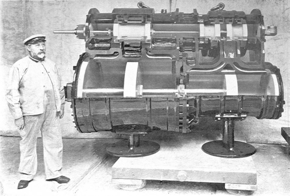 A set of Vauclain tandem compound cylinders and piston-valves for an Atchison Topeka and Santa Fé "Decapod" Part of the walls has been removed from cylinders and steam chest to show the arrangement of the ports.